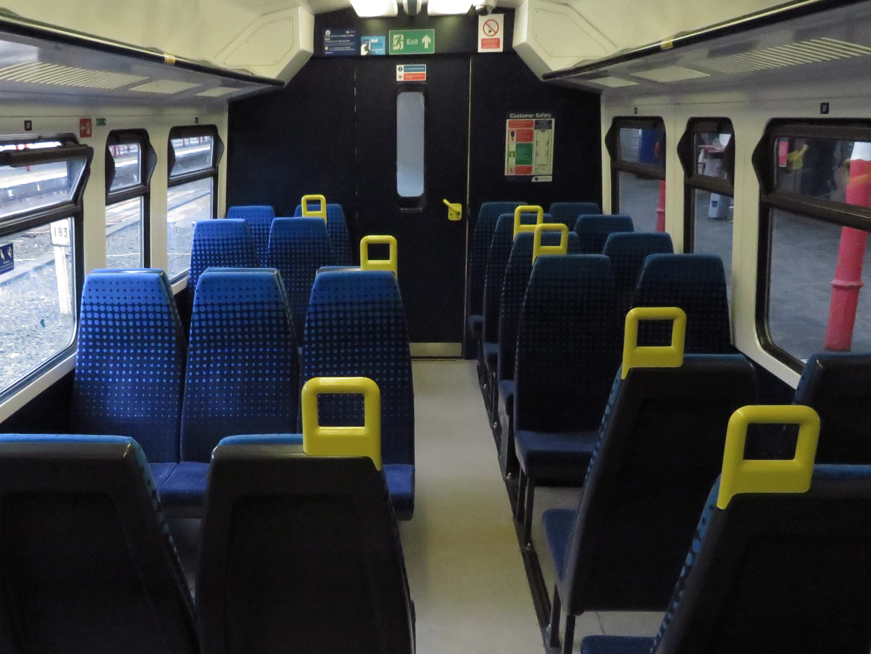 Refurbished interior of a Northern class 323. Note the repainted seat backs, walls and grab handles, the replacement of the striped purple seat covers, and the slight change in seating layout.